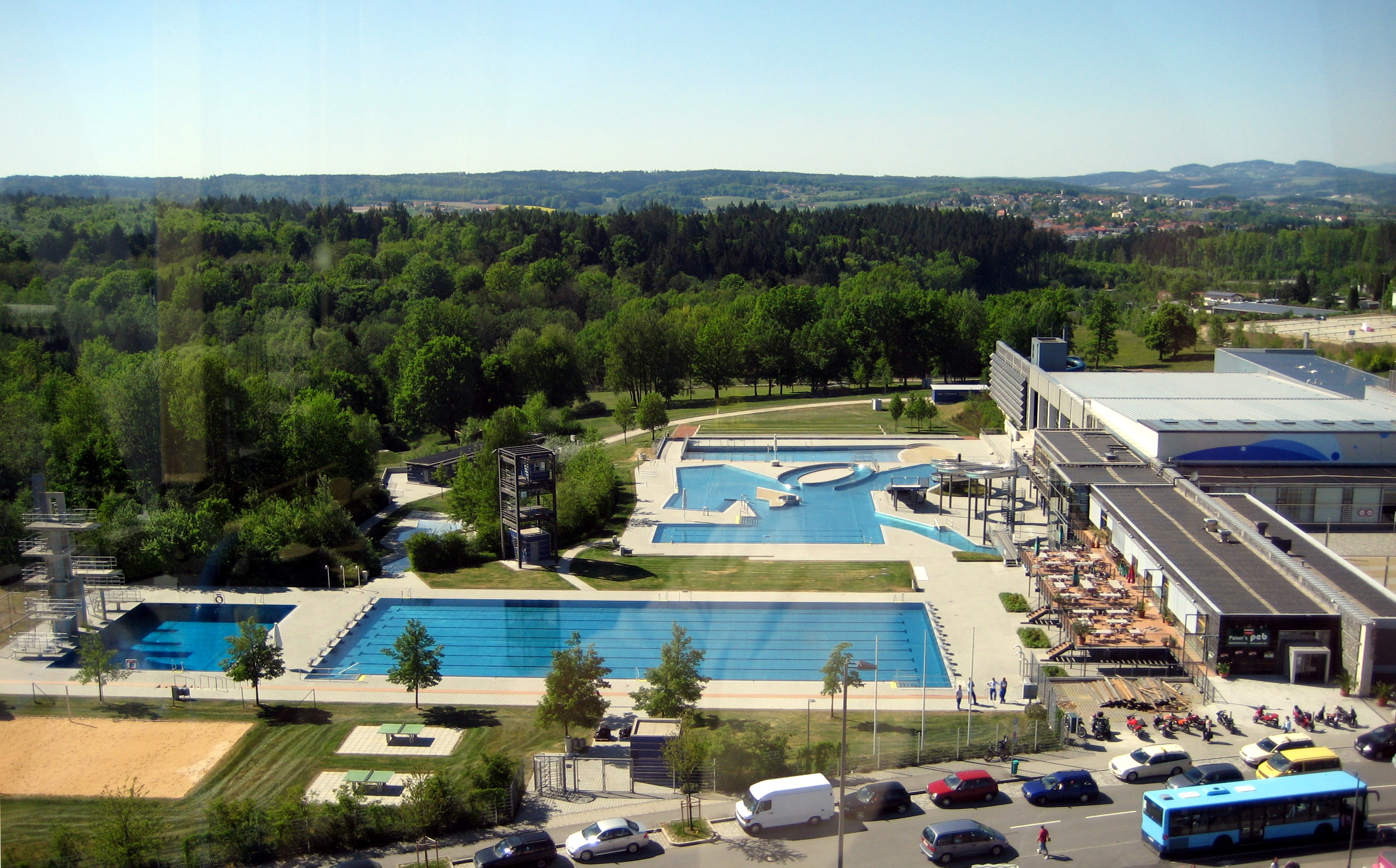 Passau, open air bath „PEP“